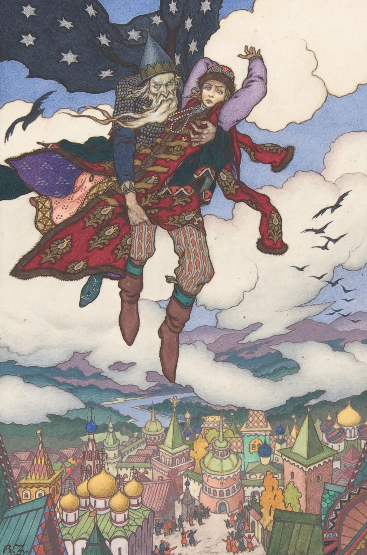 Illustration for "Maria Morevna" [Koshchey the Deathless carries off Maria Morevna]